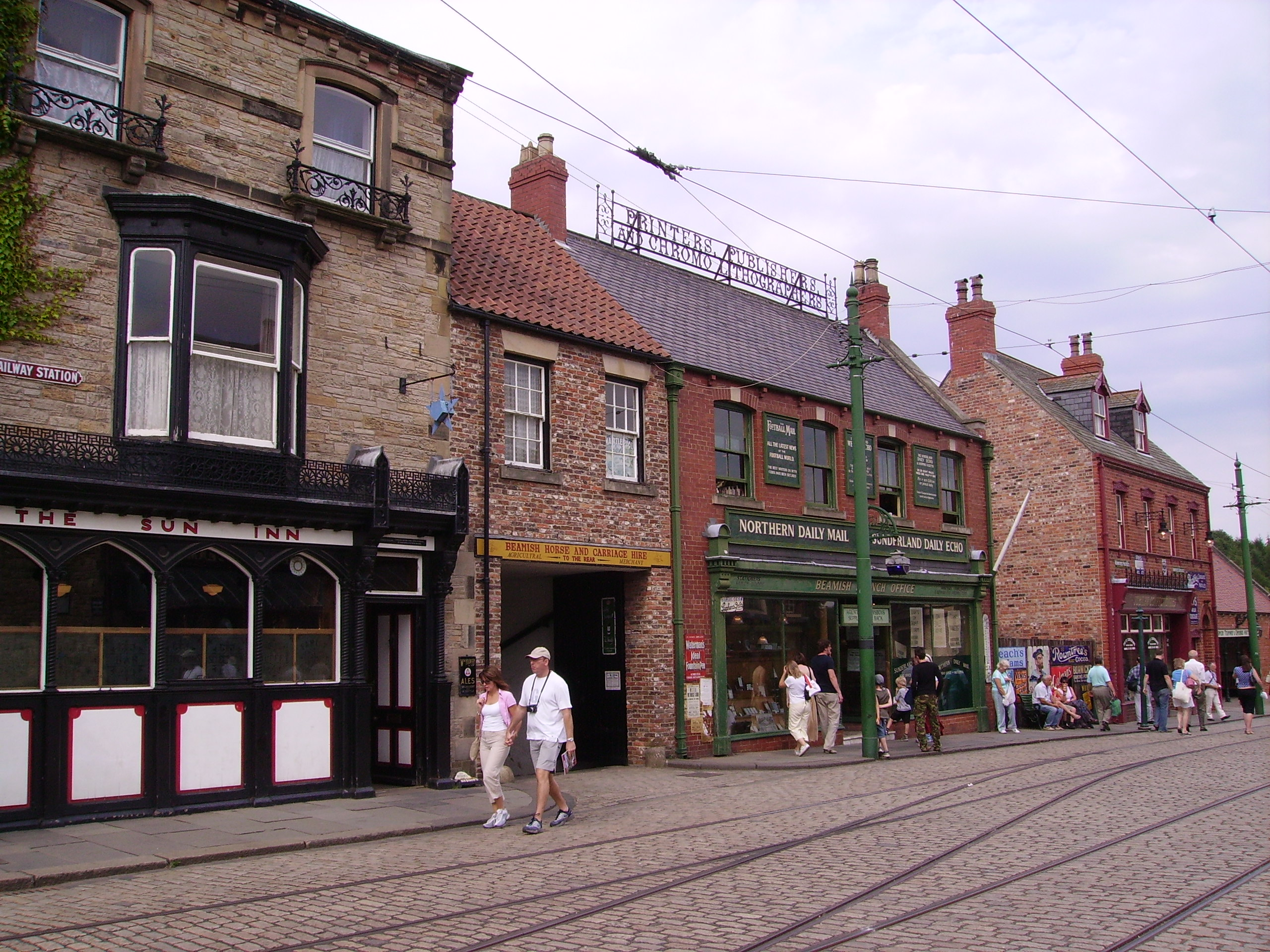 Beamish Museum, County Durham, England. This is a view of the north side of the main street in Town, showing the pub, stables, print works & sweet shop.